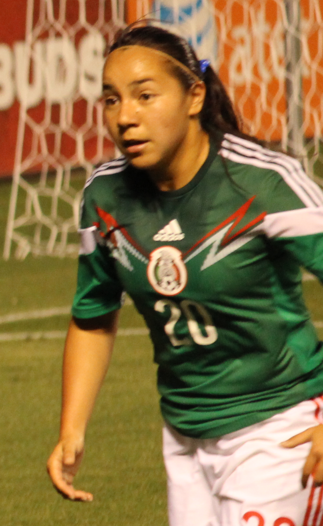 Crystal Dunn with the United States women's national soccer team in a friendly against Mexico, on September 14, 2014 at Rio Tinto Stadium in Salt Lake City (Sandy), Utah.